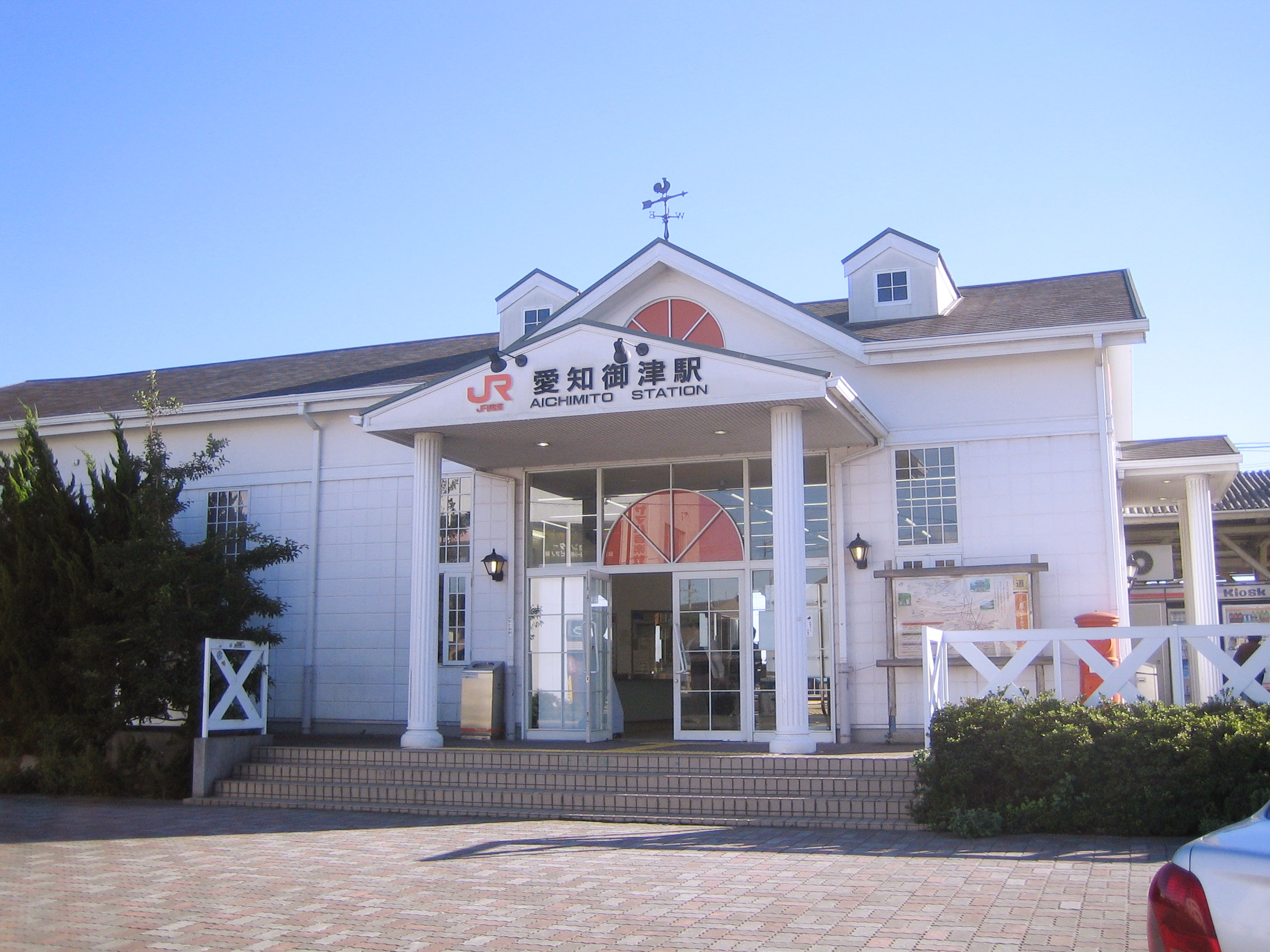 Aichimito Sta. (愛知御津駅), in Mito, Aichi, Japan